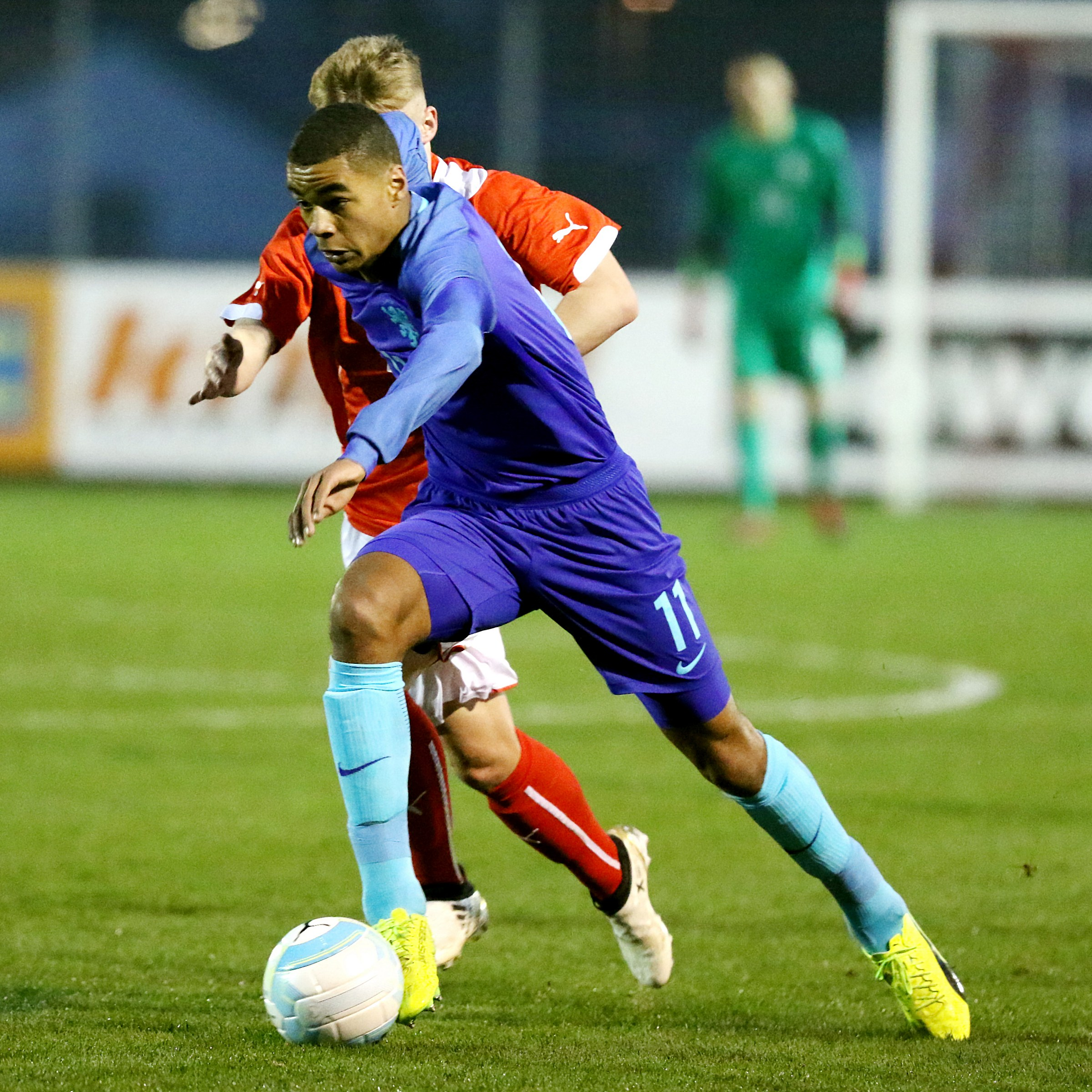 Friendly match Austria national under-18 football team (red shirts) vs. Netherlands national under-18 football team (blue shirts) 1–1 (1–0) on 2017-03-23 in Eggendorf – The photo shows Cody Gakpo (PSV Eindhoven U19).